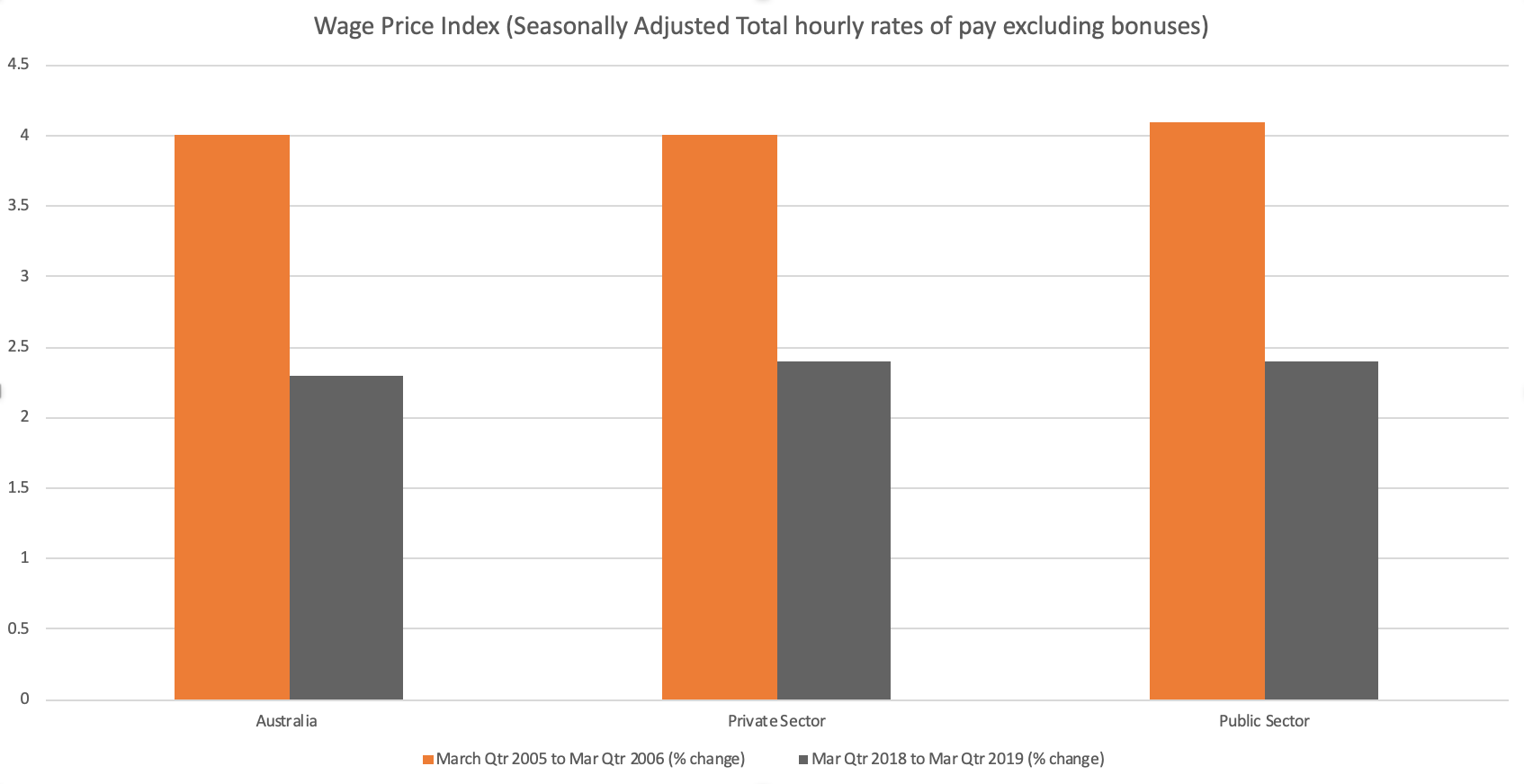 This graph illustrates the significant change in wage growth between pre-GFC and post-GFC.